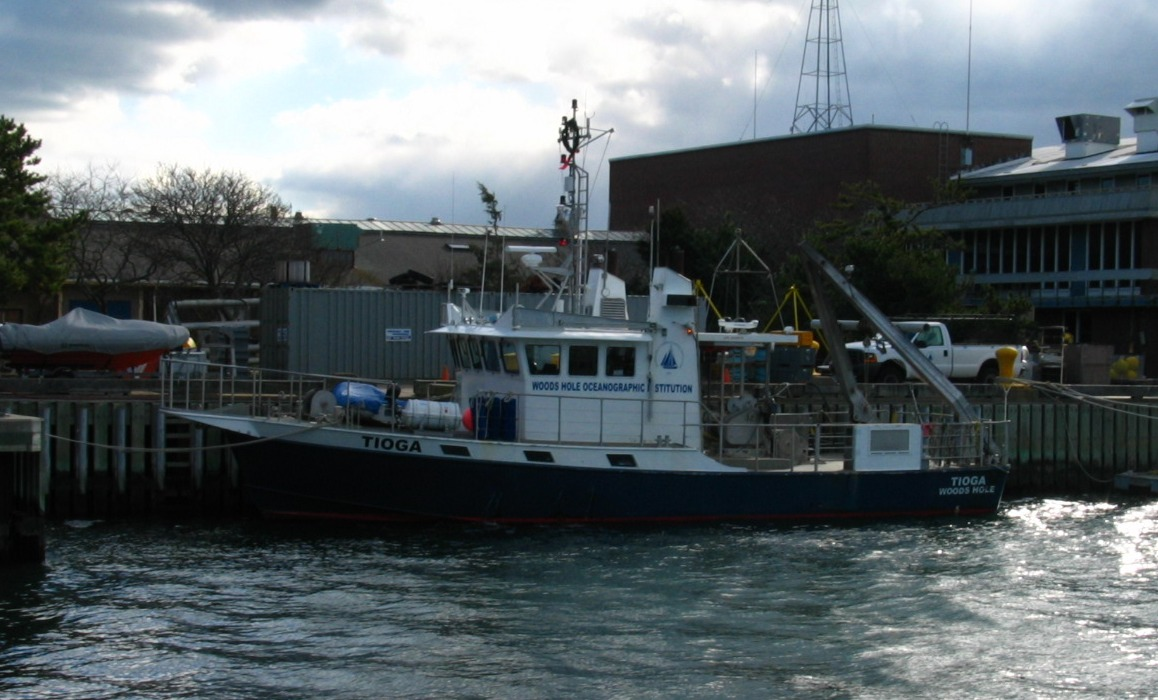 R/V Tioga at the dock at WHOI.